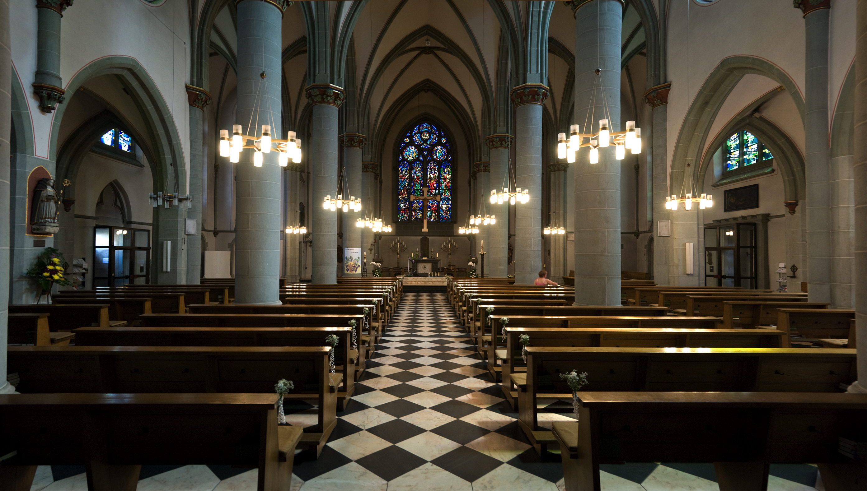 Interior of St. Gertrud von Brabant church in Bochum Wattenscheid, Germany.